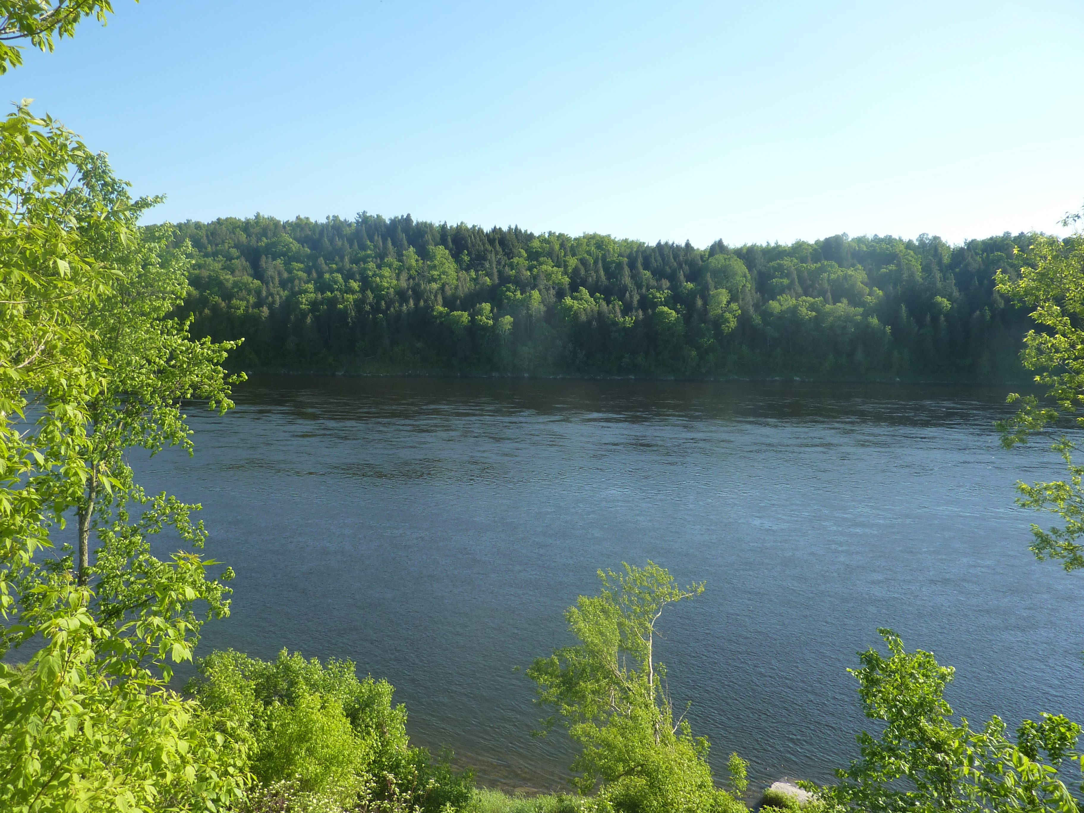 Saint John River at Bath, New Brunswick